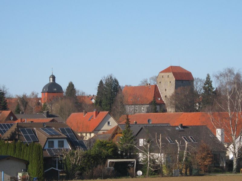 Village Jühnde, South Lower Saxony